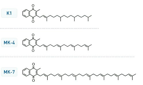 Vitamin K structures (K1, MK-4, MK-7)